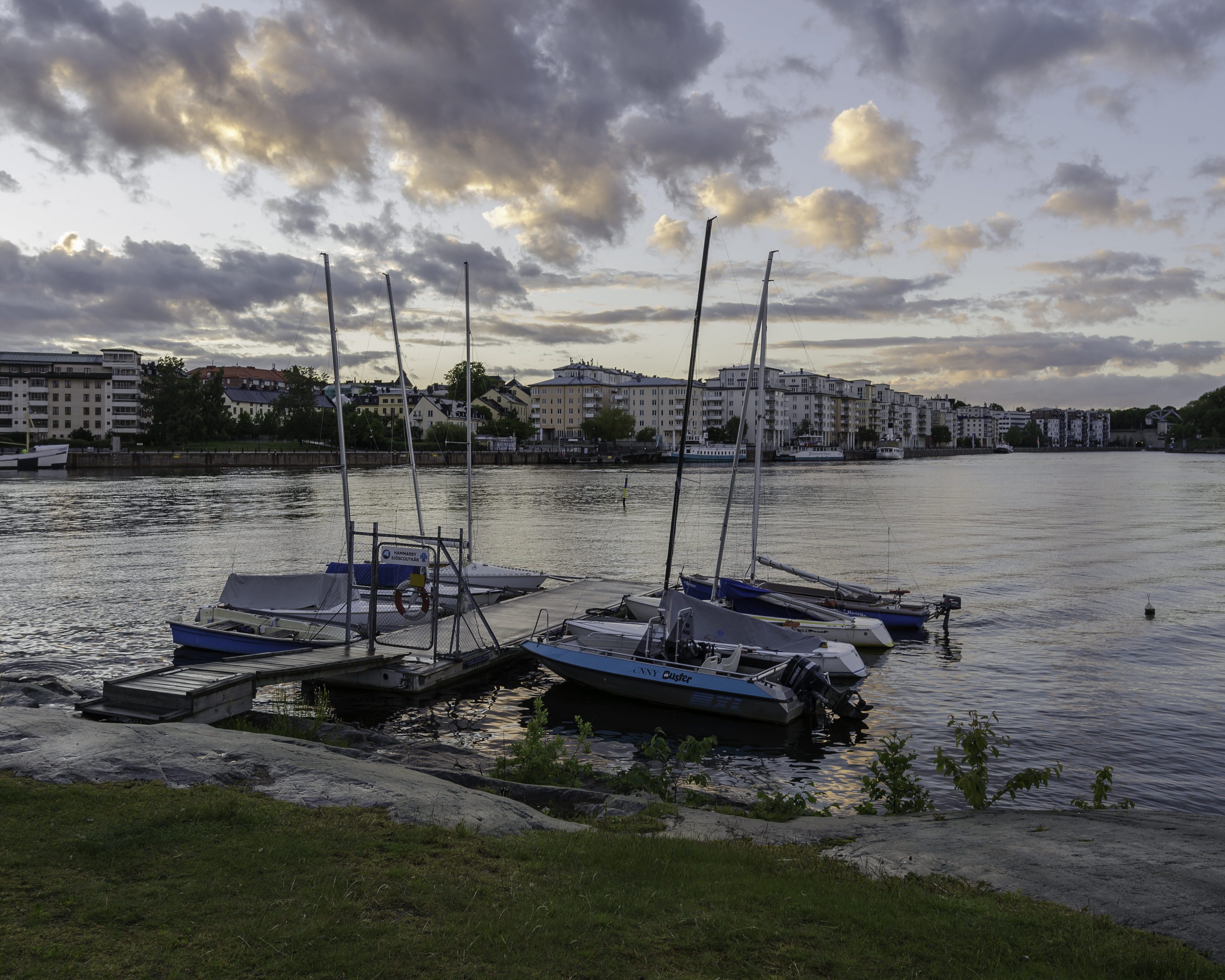 Small jetty in Södra Hammarbyhamnen, Stockholm.